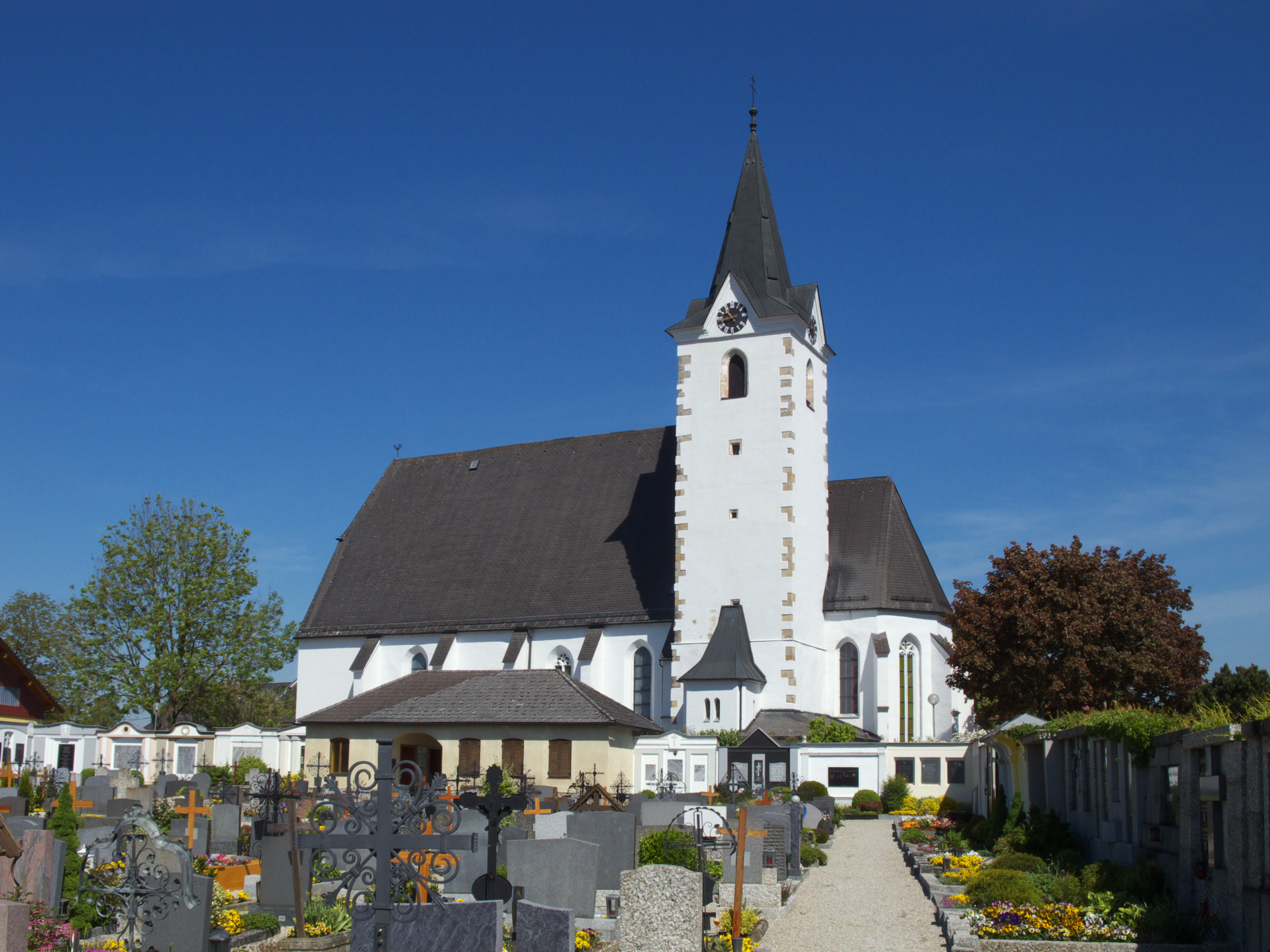 Parish Church Saint Andrews and cemetary in Mitterkirchen.